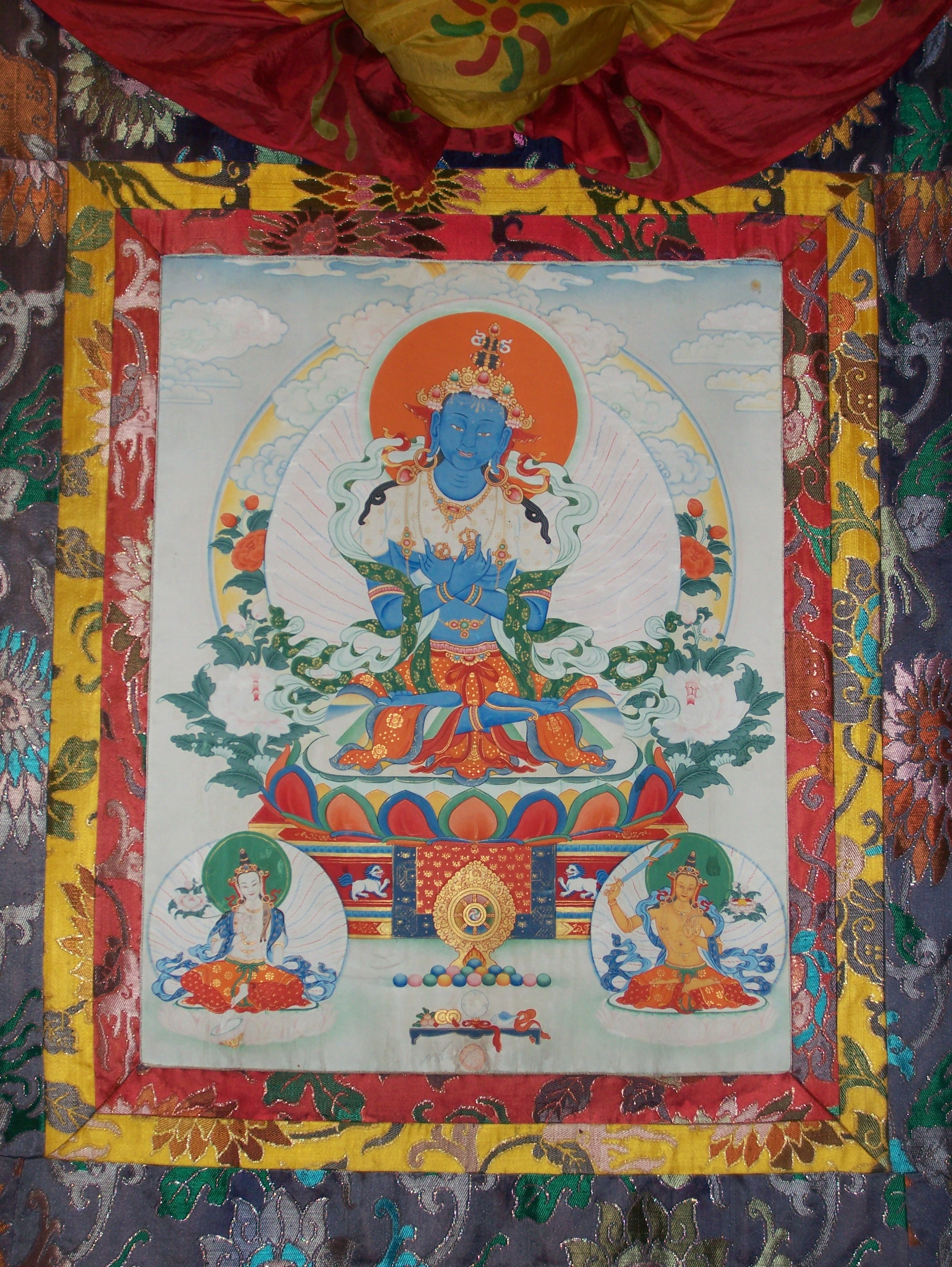 Thangka of Vajradhara (early 19th century)